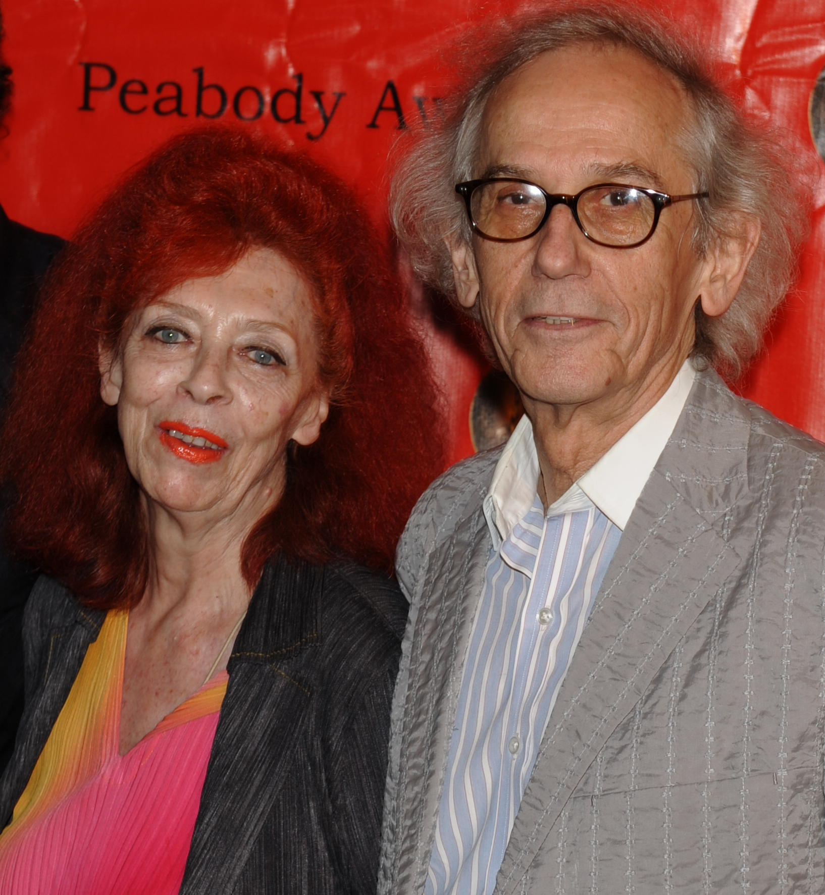 PHOTO CREDIT: ANDERS KRUSBERG / PEABODY AWARDS Jean-Claude and Christo 68th Annual Peabody Awards Luncheon Waldorf=Astoria Hotel New York, NY USA May 18, 2009